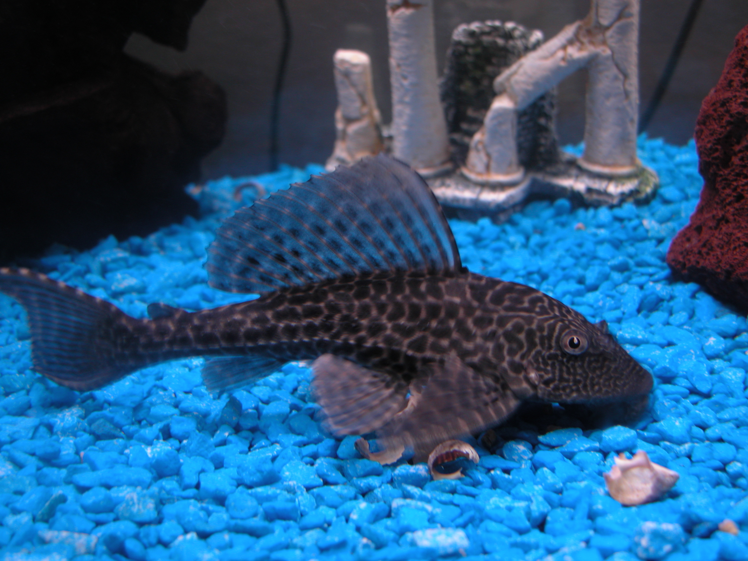 Pterygoplichthys on blue gravel in an aquarium.